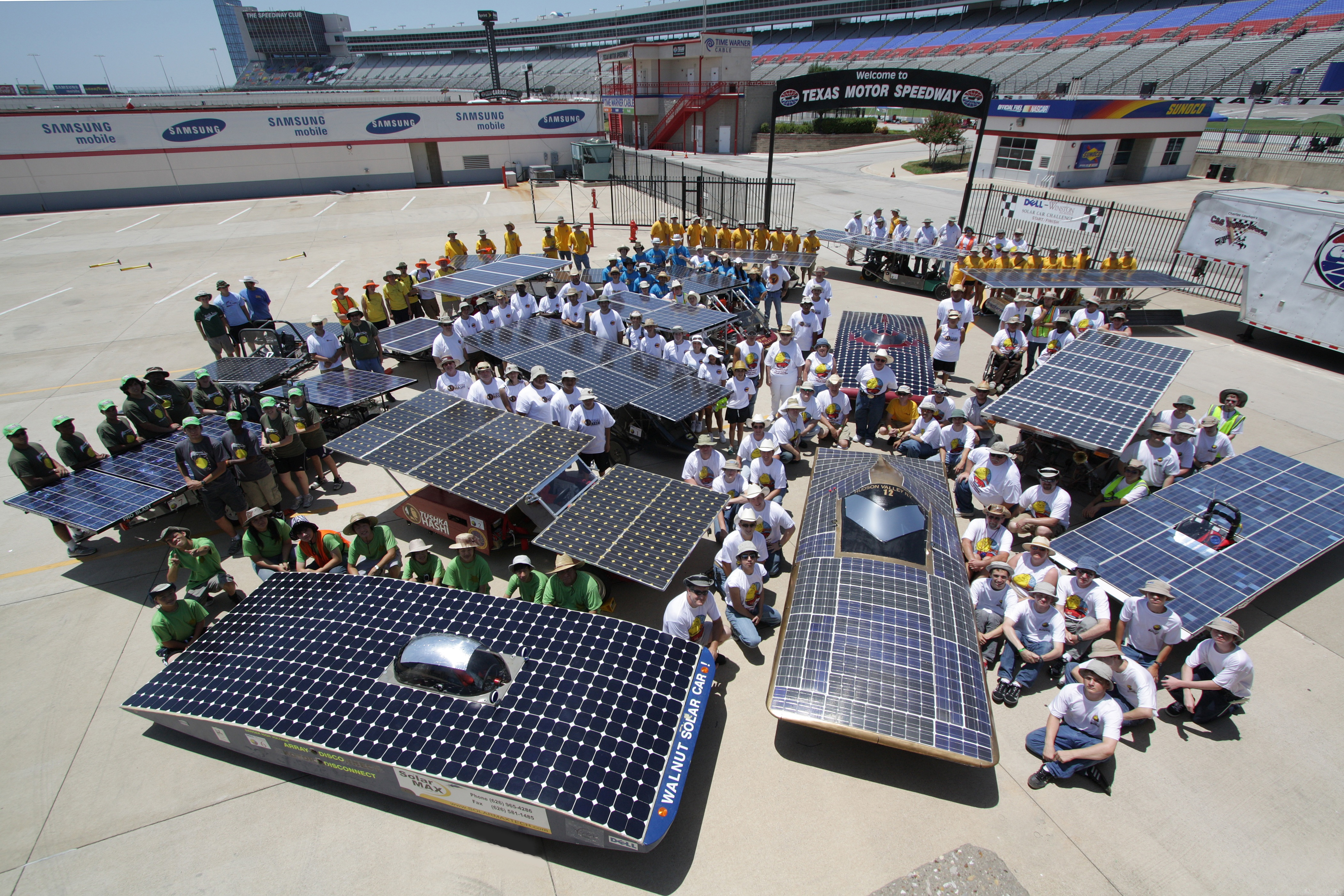 All the Cars of the 2009 Hunt-Winston Solar Car Challenge